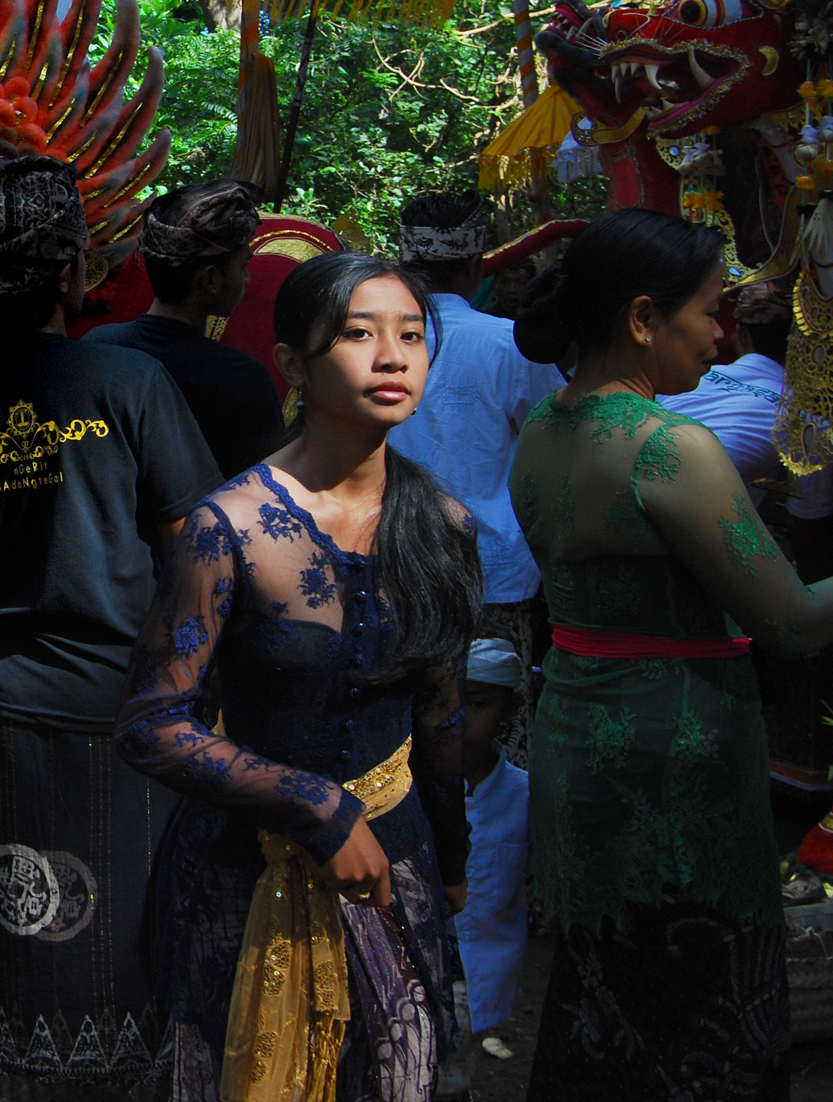 Girl in traditional costume at a Cremation ceremony.